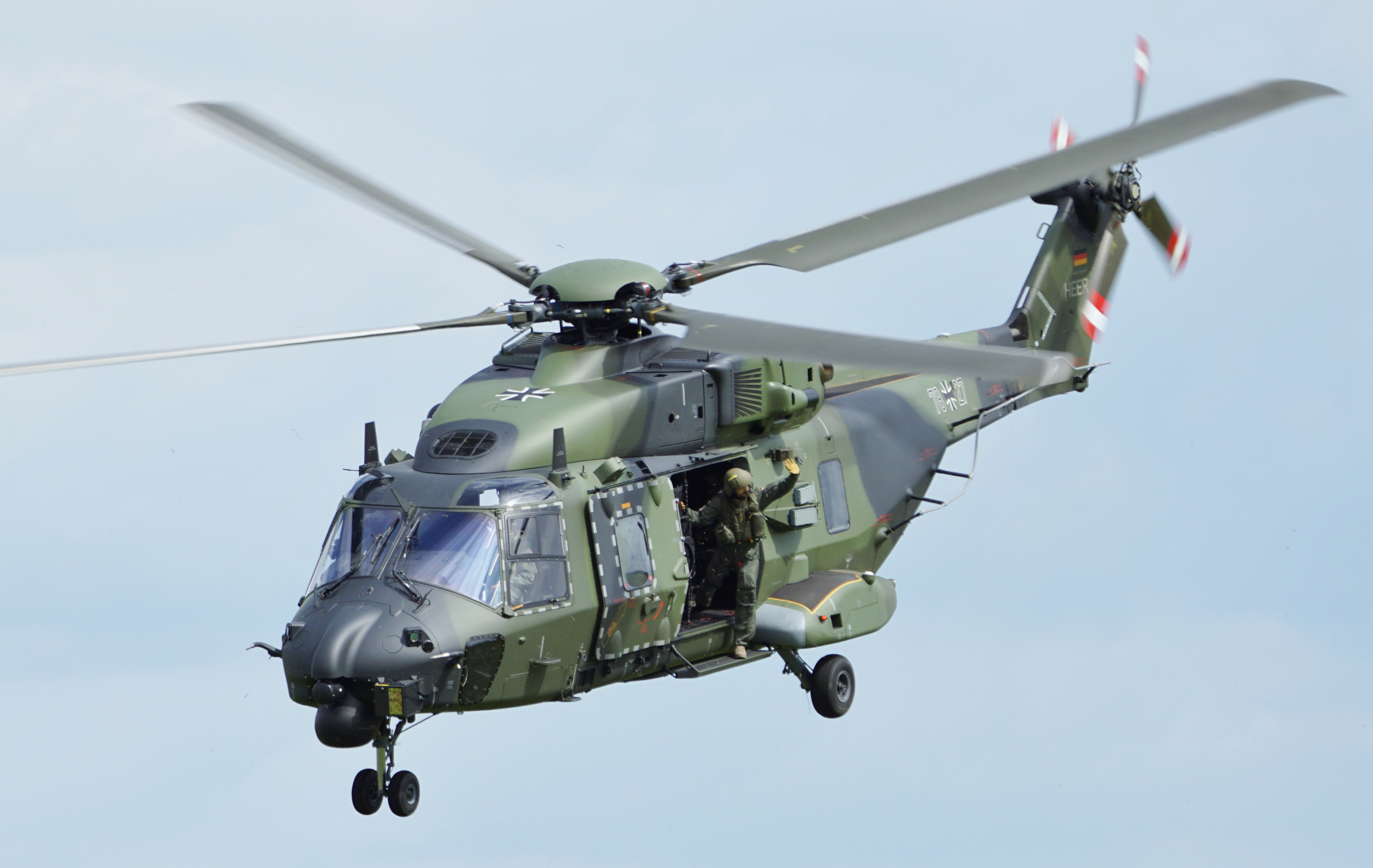 Heer NH90 Cropped